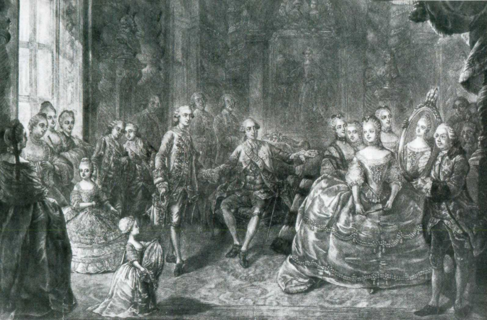 Presentation of the portrait of Maria Antonia of Austria (Marie Antoinette) to Louis Auguste, Dauphin of France in front of Louis XV and the court at Versailles